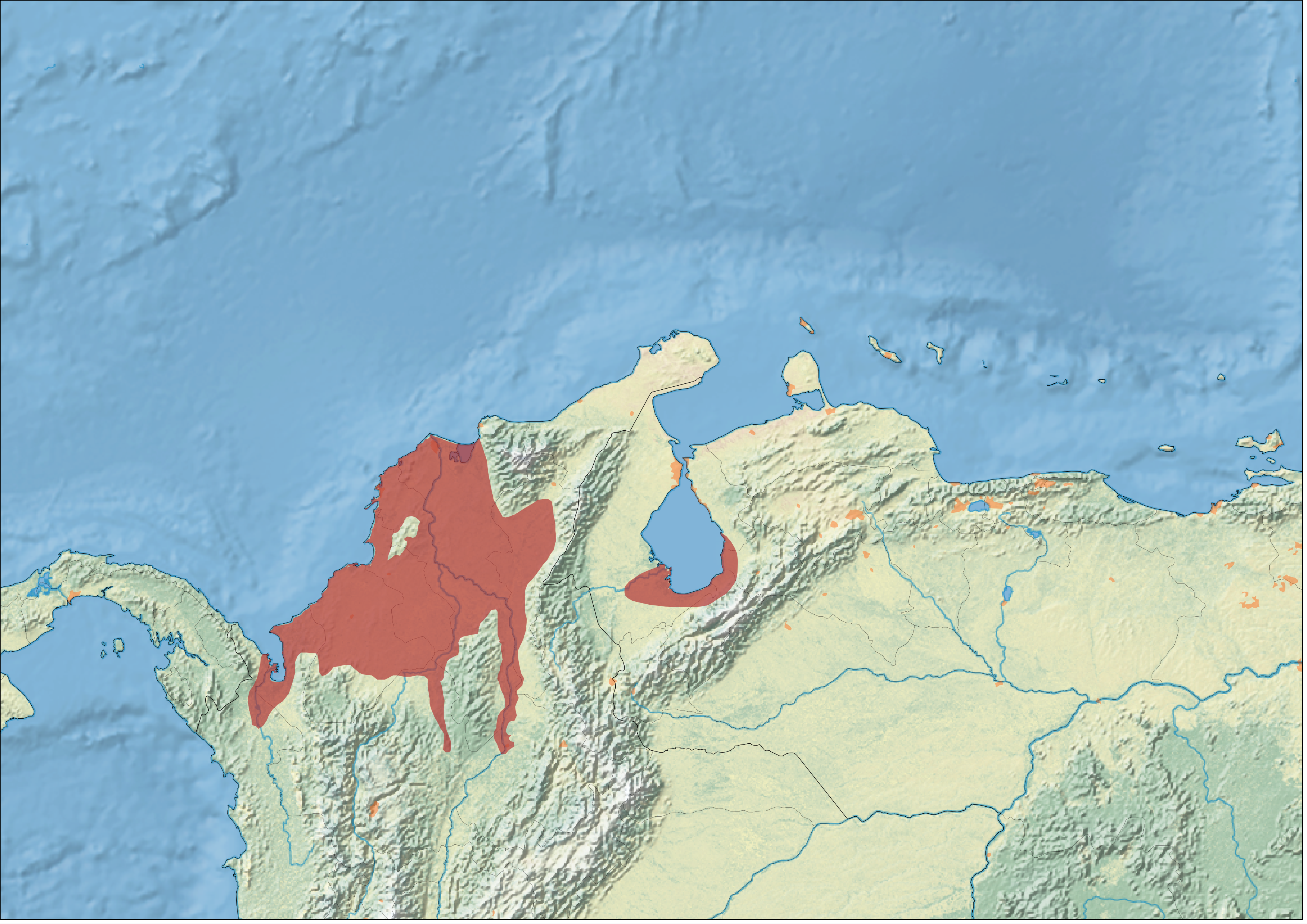 The approximate distribution of the Northern Screamer. According to the IUCN Red List.